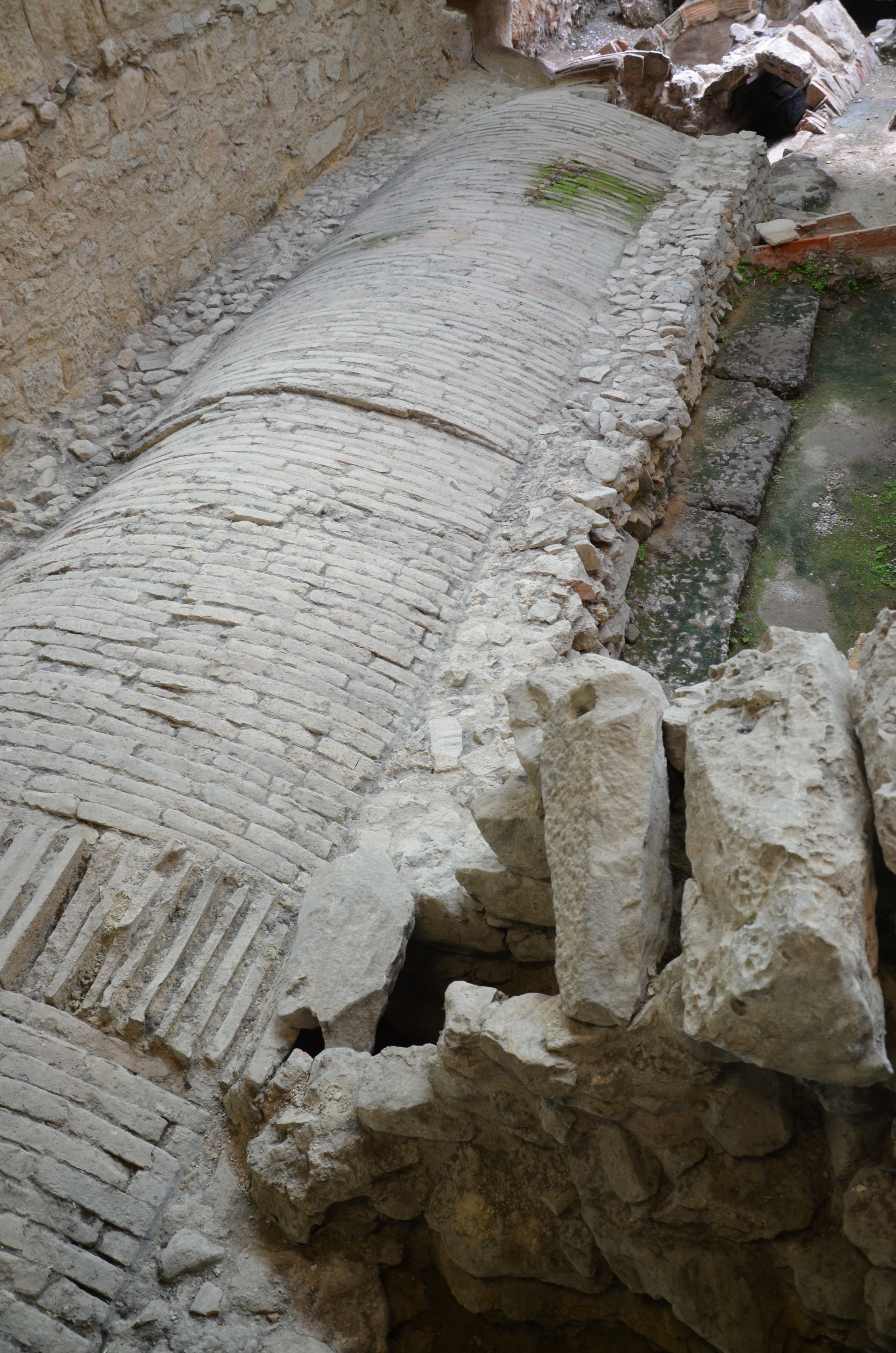 Exposed section of the Eridanos river which was bricked over during Hadrian's reign, Excavations of Monastikari Square, Athens, Greece